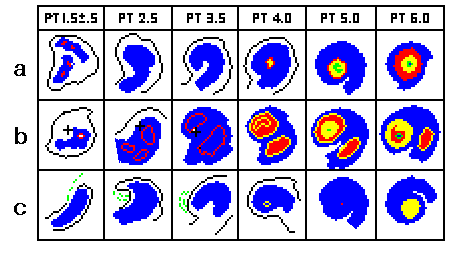 PAT Pattern use in Dvorak techinique